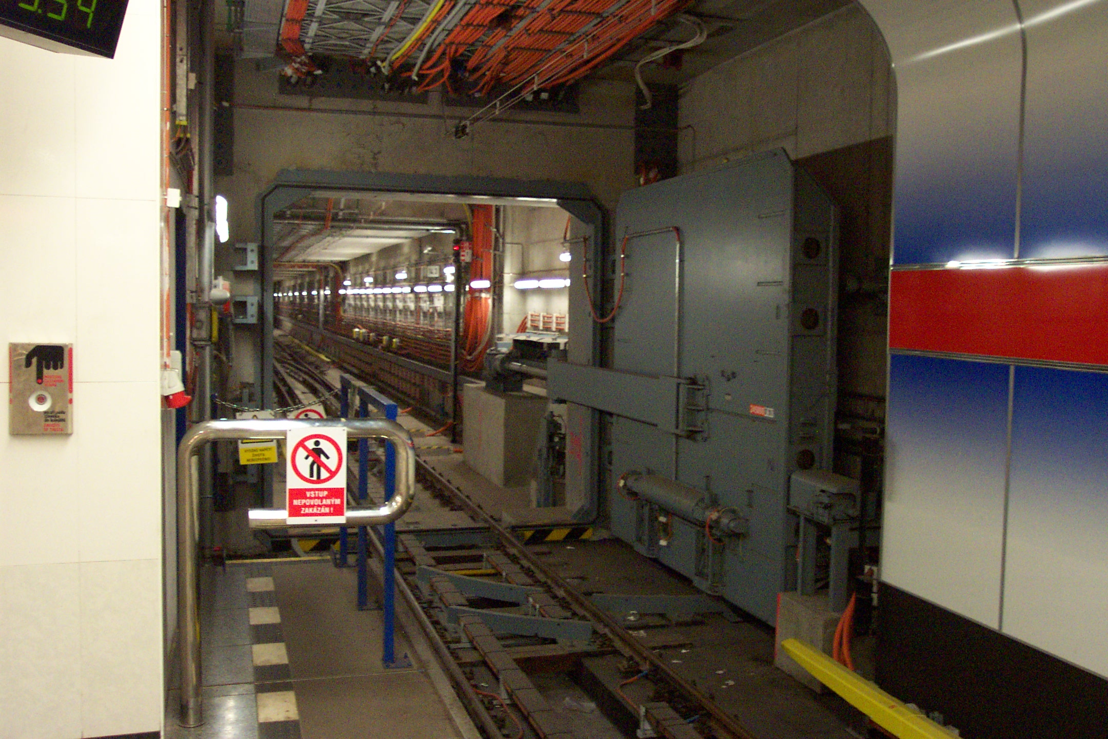 Metro station Ládví in Prague, opened 2004